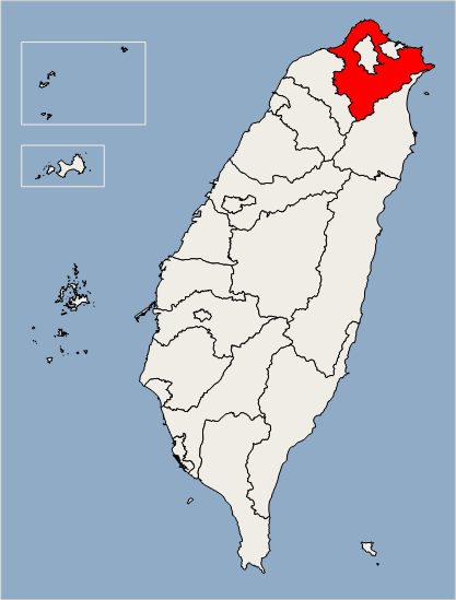 Location of Taipei County in Taiwan.